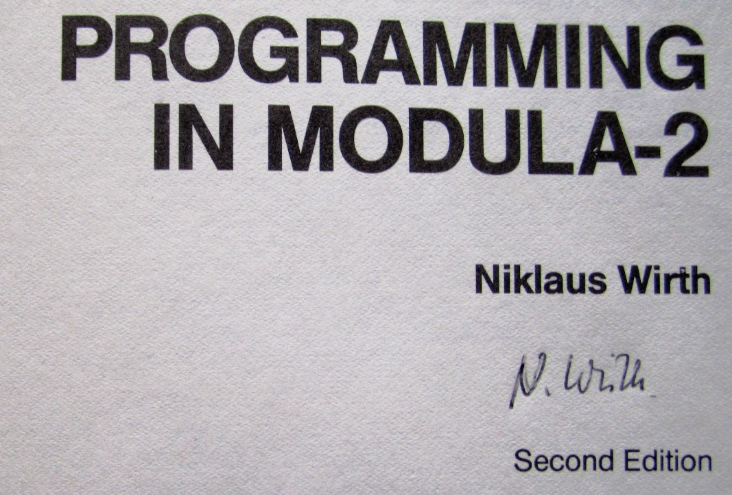 Signature of Niklaus Wirth